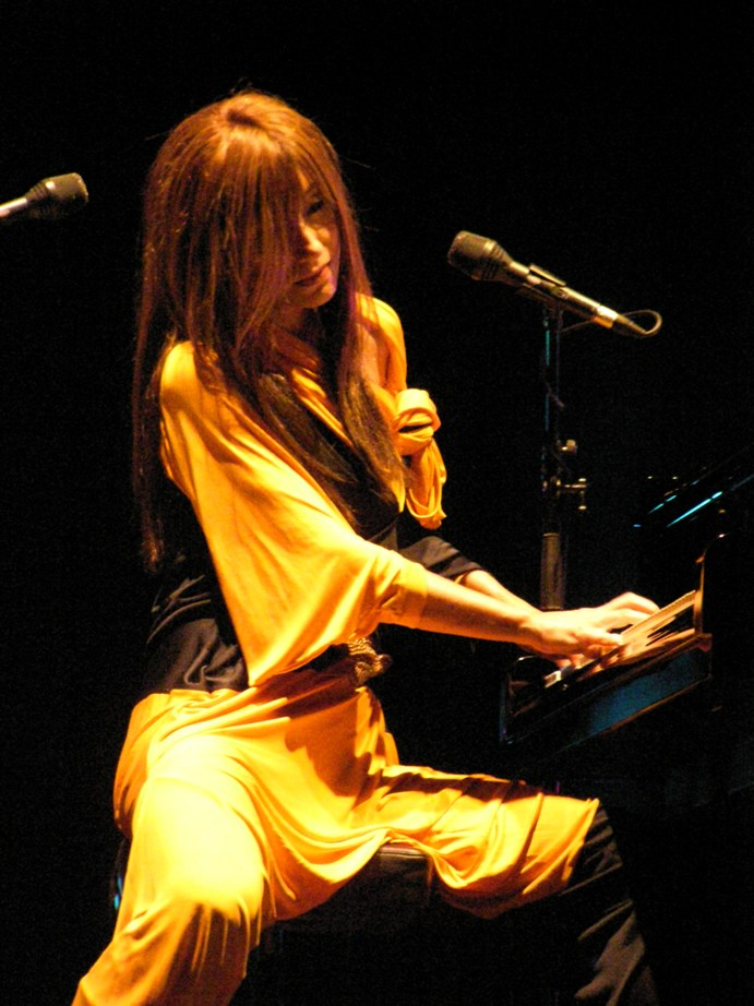 Tori performing in Ra'anana, Israel on July 21st, 2007 this picture was taken by me at the concert